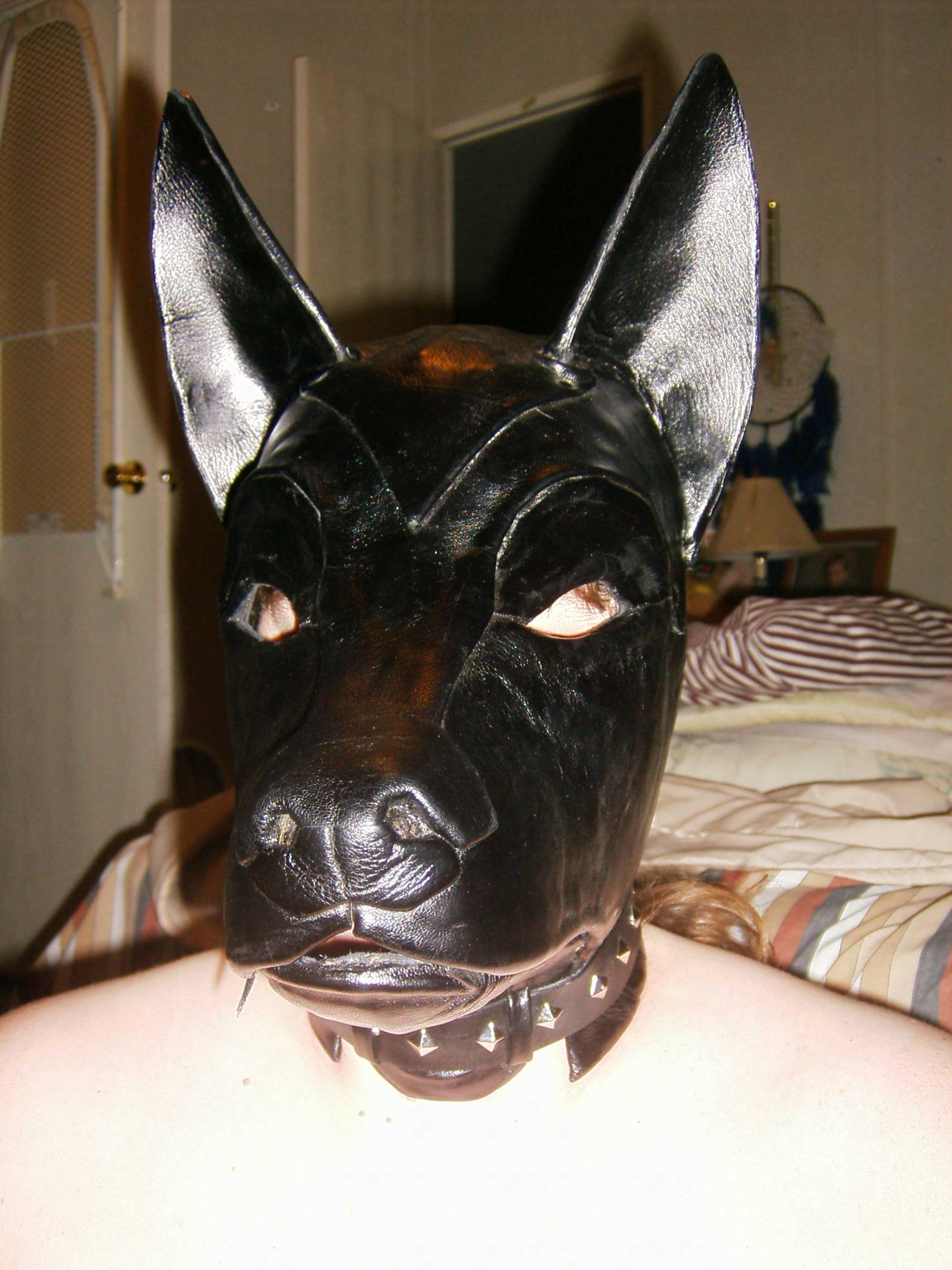 doggirl